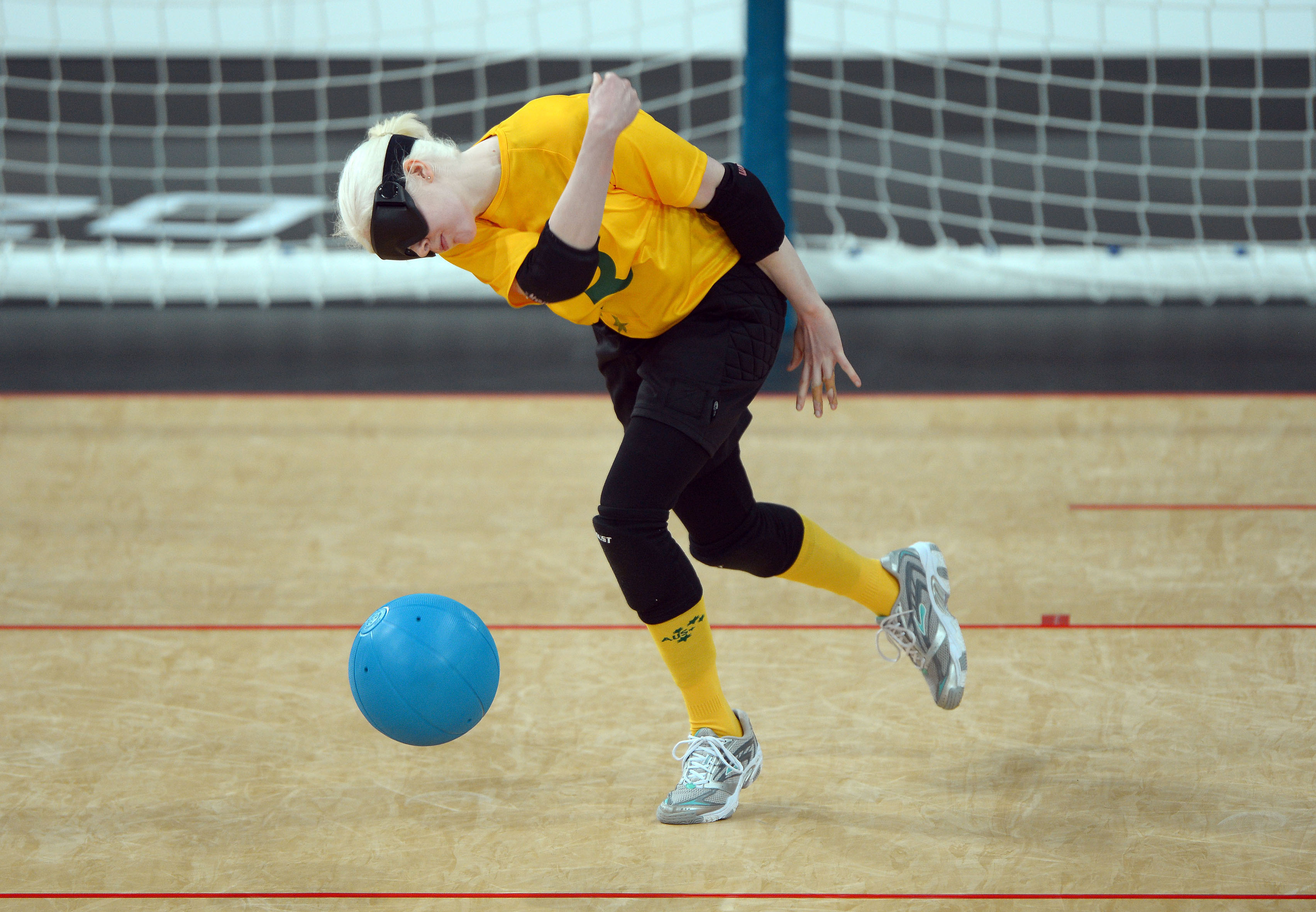 Photograph of Australian Paralympic team member Nicole Esdaile at the 2012 Summer Paralympic Games in London